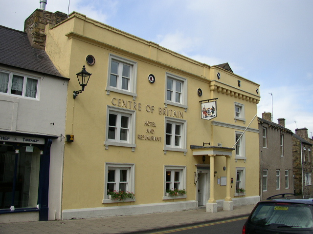 Centre of Britain Hotel. Haltwhistle’s most historic building, the oldest part was a Border Reivers' Pele Tower, dating from the 15th Century. Later it became a Manor House, Excise Office, Coaching Inn, Post Office, Temperance Hotel, Pub and Cafe. In 1997 the building was completely refurbished, finding many archaeological and architectural features - many of which have been included in the presentation of the reborn Hotel.